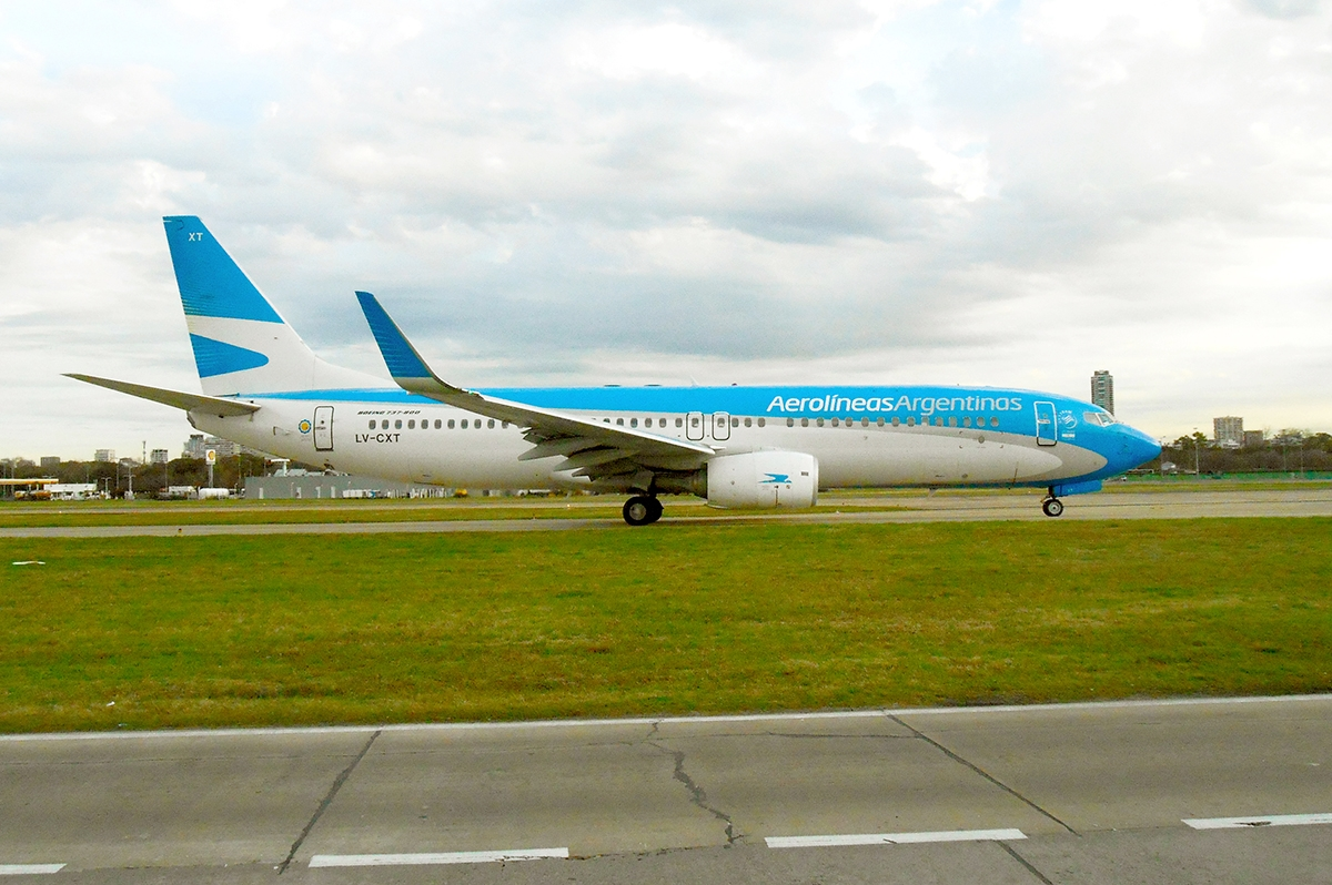 Aerolineas Argentinas - Boeing 737-800 Next Gen LV-CXT - Jorge Newbery Airfield, Buenos Aires. August 1, 2015.